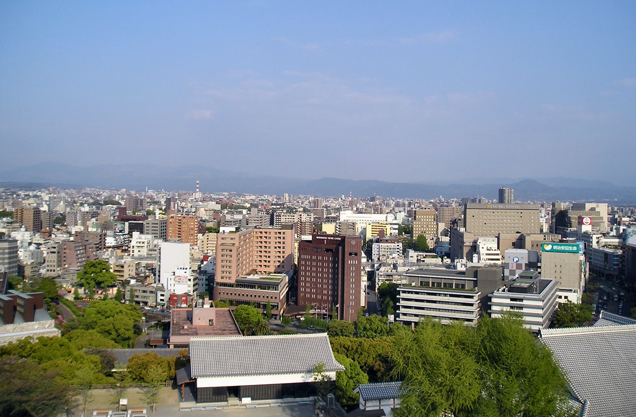 Kumamoto city panorama from Kumamoto Castle.